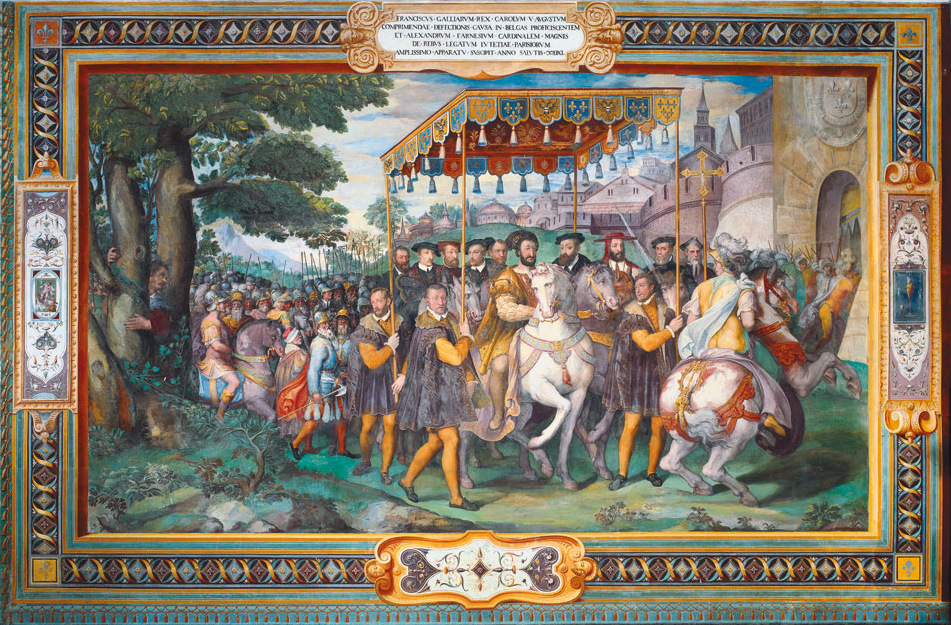 Francesco I riceve a Parigi Carlo V e Alessandro Farnese